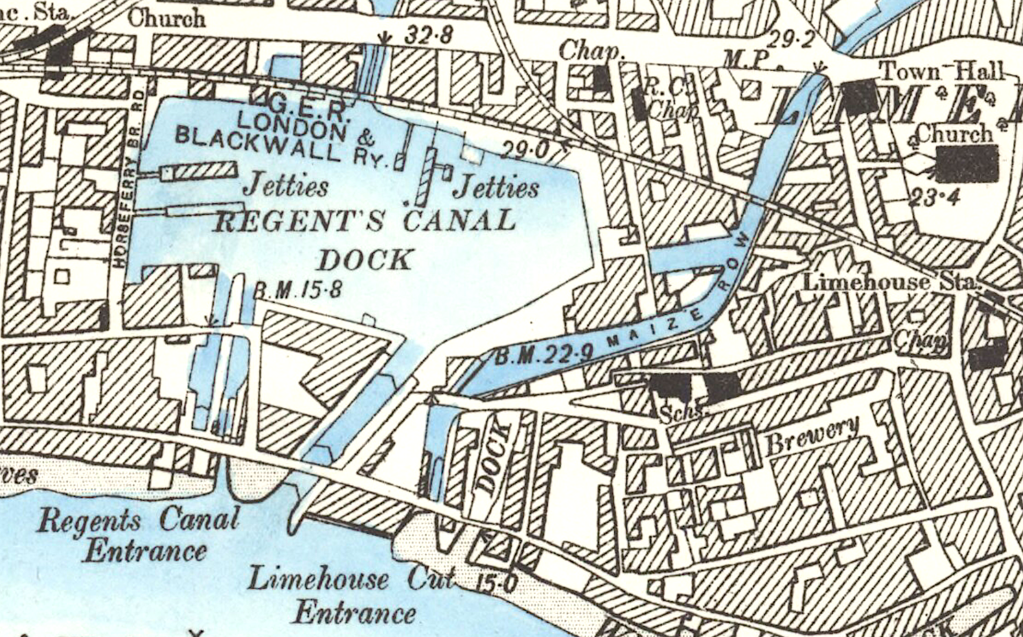 The 19th century link between the Regent's Canal Dock and the Limehouse Cut was short lived . This map shows the situation after it was filled in (1864), restoring the Cut's independence.